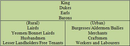 A. Grant, "Service and tenure in late medieval Scotland 1324-1475" in A. Curry and E. Matthew, eds, Concepts and Patterns of Service in the Later Middle Ages (Boydell and Brewer, 2000), ISBN 0851158145, pp. 145-65; K. Stevenson, Chivalry and Knighthood in Scotland, 1424-1513 (Boydell Press, 2006), ISBN 1843831929, pp. 13-15; J. Goodacre, State and Society in Early Modern Scotland (Oxford: Oxford University Press, 1999), ISBN 019820762X, pp. 57-60; A. Grant, "Late medieval foundations", in A. Grant and K. J. Stringer, eds, Uniting the Kingdom?: the Making of British History (London: Routledge, 1995), ISBN 0415130417, p. 99; K. Stevenson, "Thai war callit knynchtis and bere the name and the honour of that hye ordre: Scottish knighthood in the fifteenth century", in L. Clark, ed., Identity and Insurgency in the Late Middle Ages (Boydell Press, 2006), ISBN 1843832704, p. 38; J. Wormald, Court, Kirk, and Community: Scotland, 1470-1625 (Edinburgh: Edinburgh University Press, 1991), ISBN 0748602763, pp. 48-9.